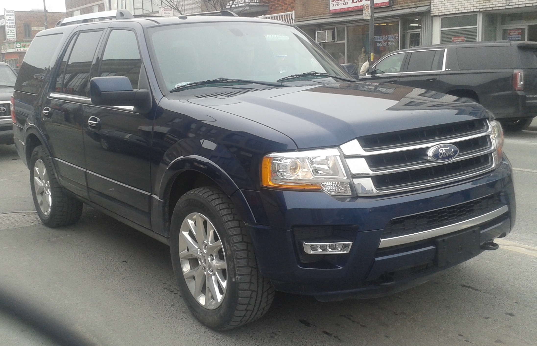 2015 Ford Expedition photographed in Montreal, Quebec, Canada.